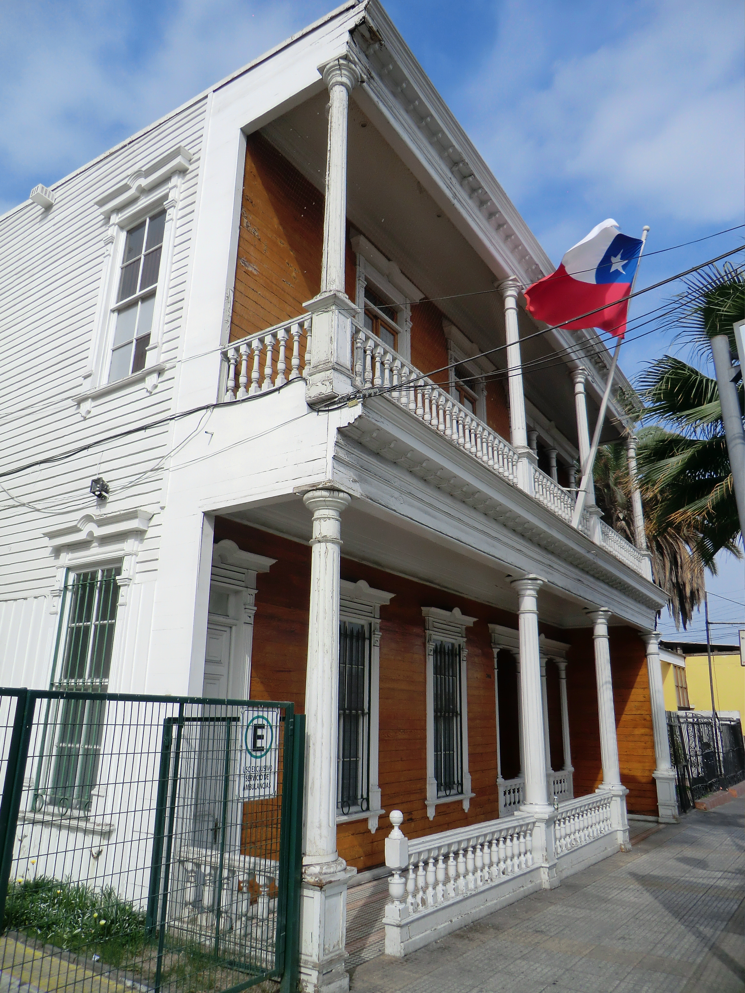 This is a photo of a national monument in Chile: 277